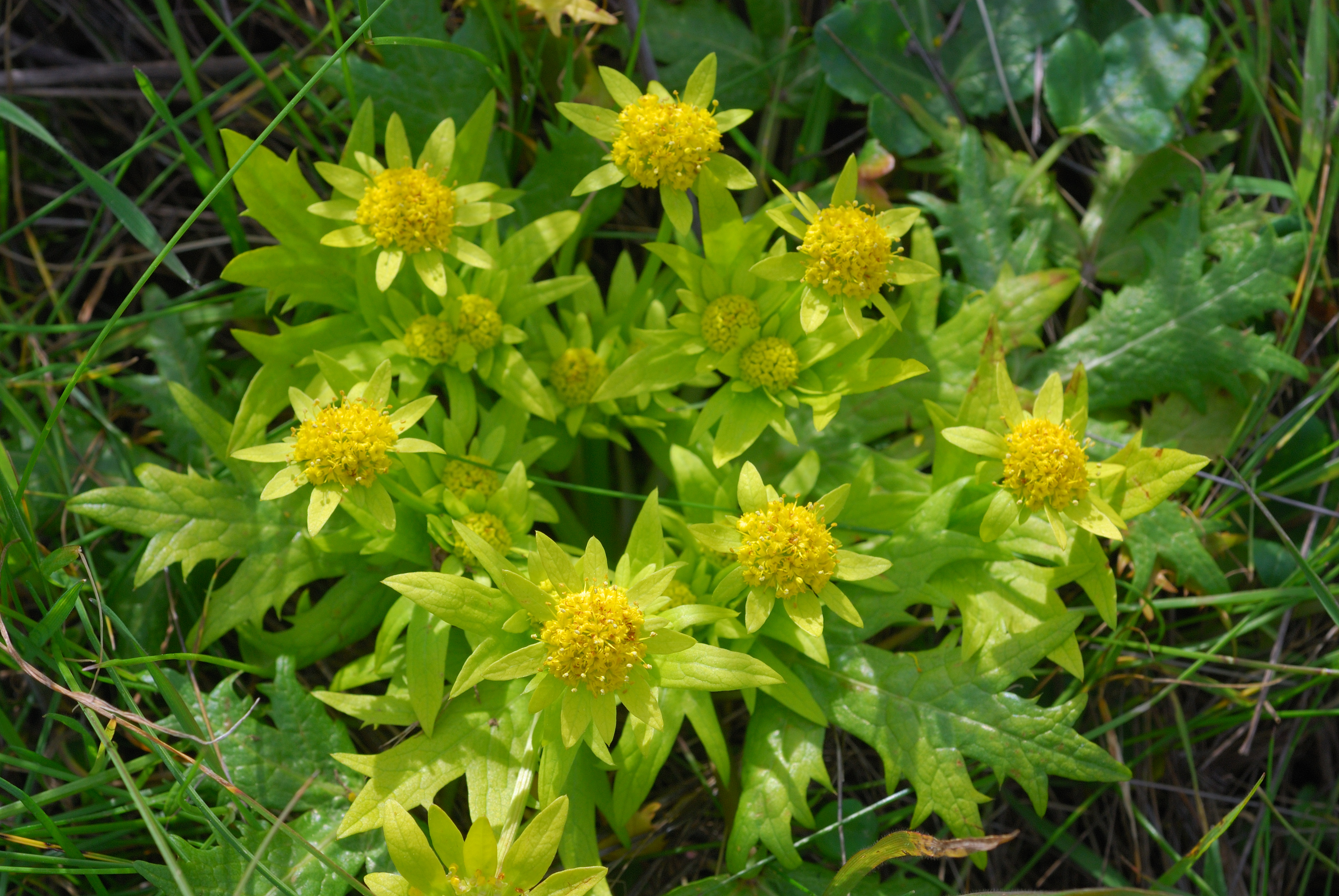 Sanicula arctopoides, native to the west coast of the United States